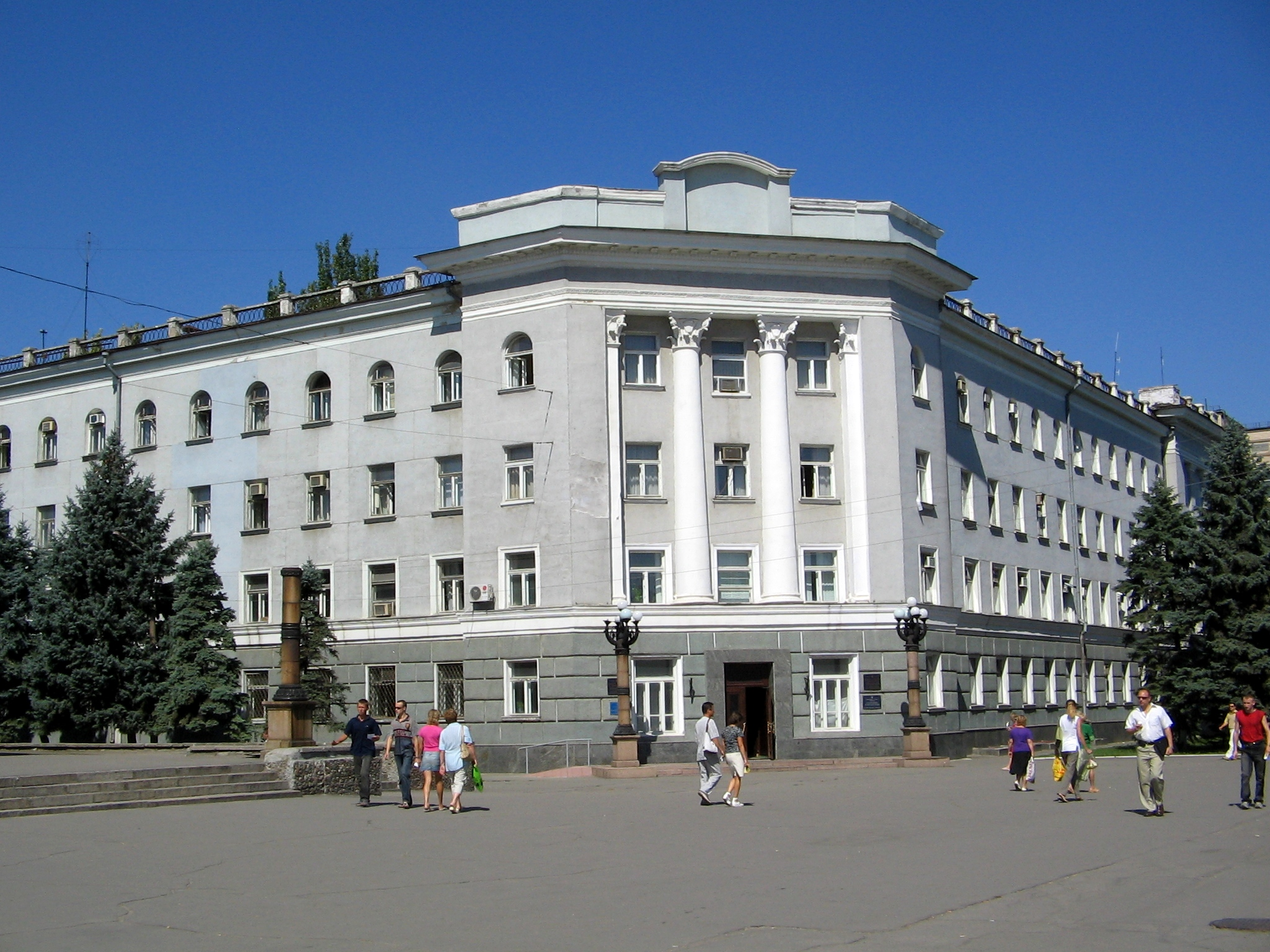 (г. Херсон) Дом №47/2 по проспекту Ушакова / House №47/2 under Ushakov Prospect